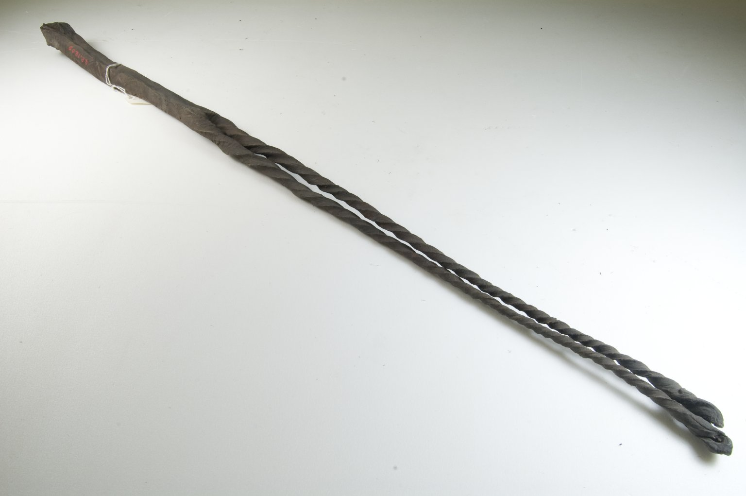 Twisted, double rhinoceros hide whip. Condition: worn.